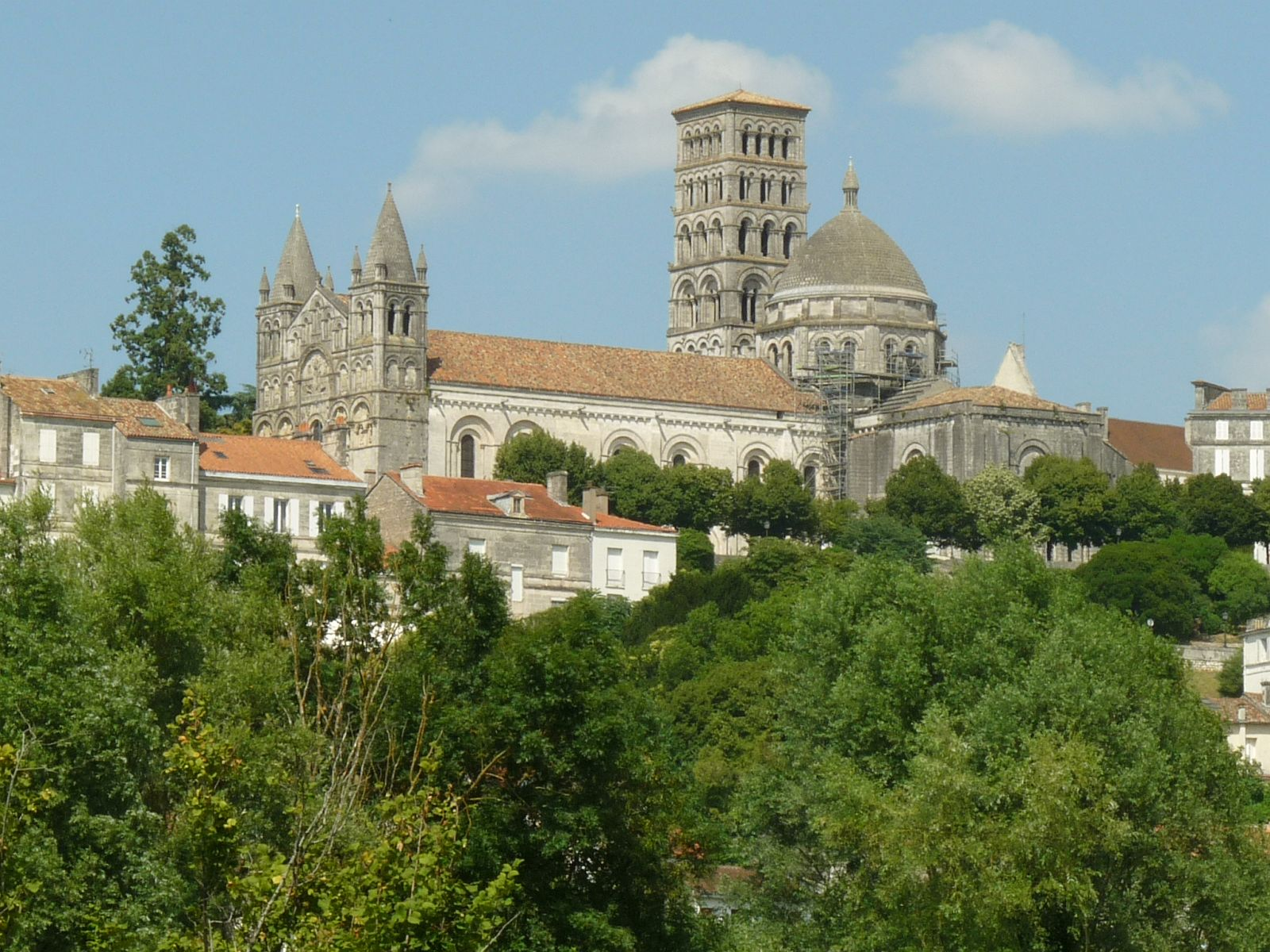 St Peter's Cathedral, Angoulême, Charente, SW France